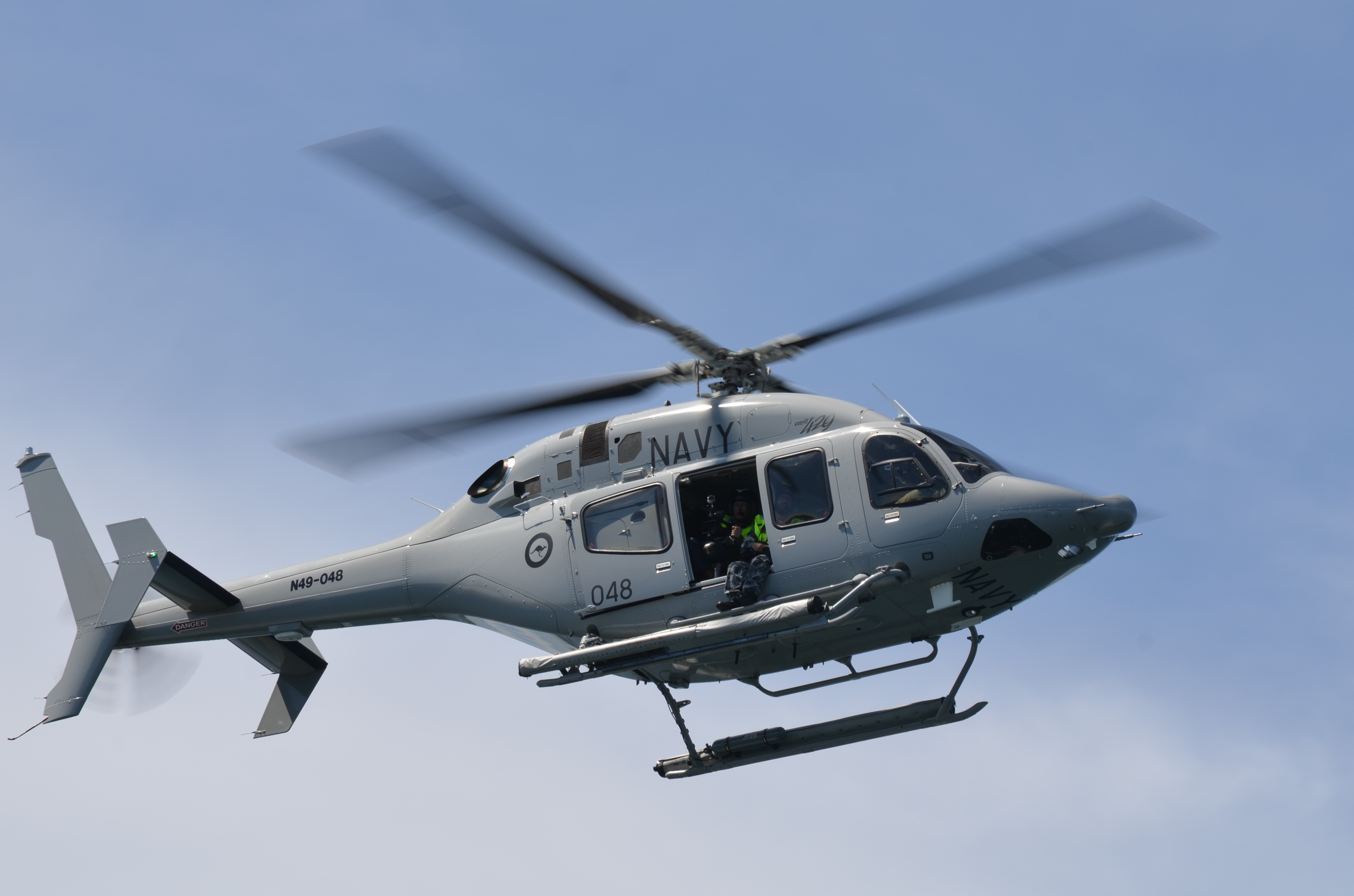 Photographs taken during day 3 of the Royal Australian Navy International Fleet Review 2013.